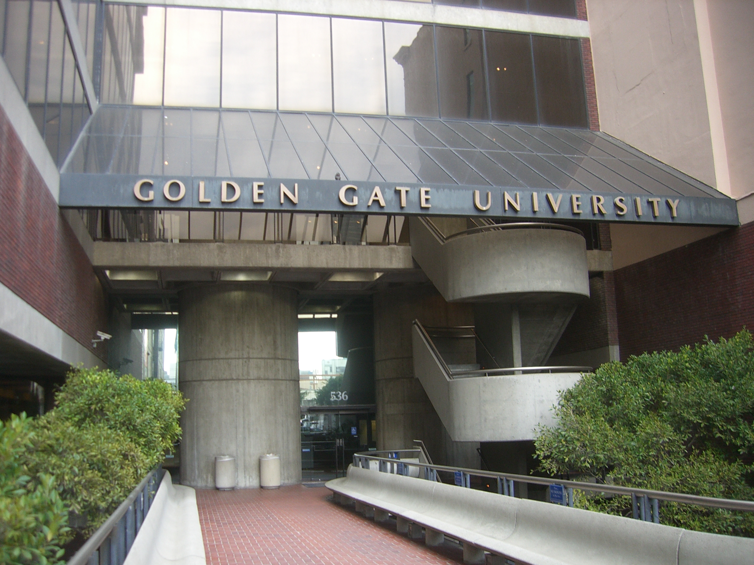 Entrance to Golden Gate University.